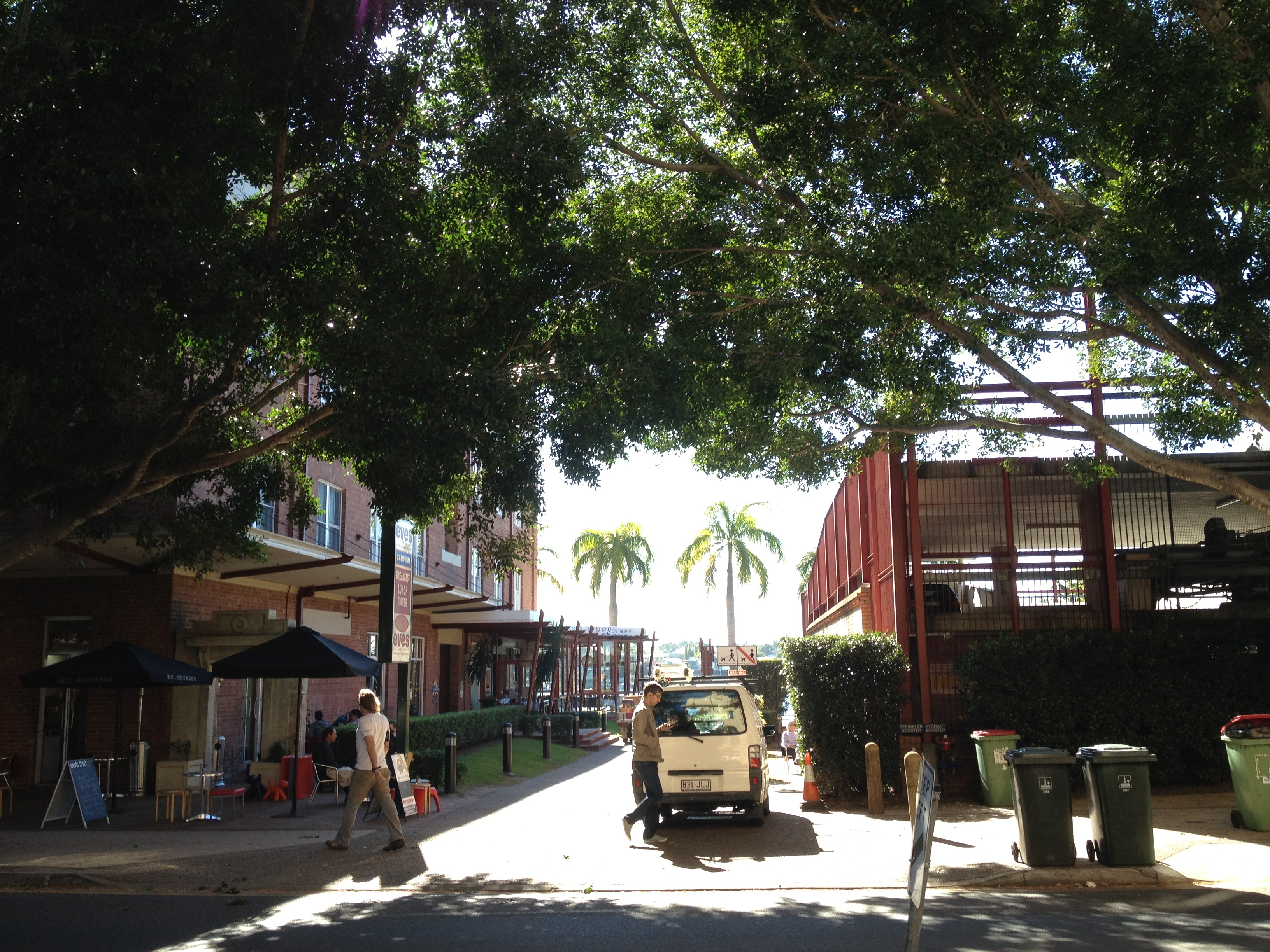 Teneriffe Precinct Street